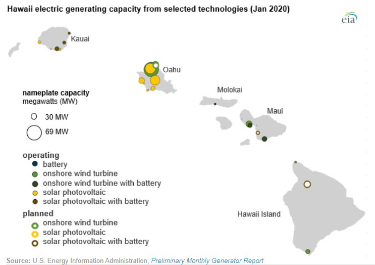 Although stand-alone wind and solar PV systems are spread across Hawaii, wind and solar generators with battery capacity are concentrated on two of the state’s islands. March 20, 2020